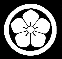 Ota family crest